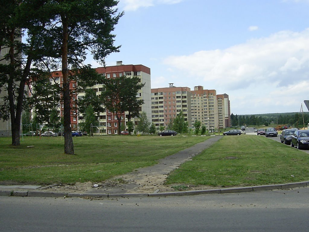 Microraion "Vialiki les" [Big forest] in Minsk, Belarus